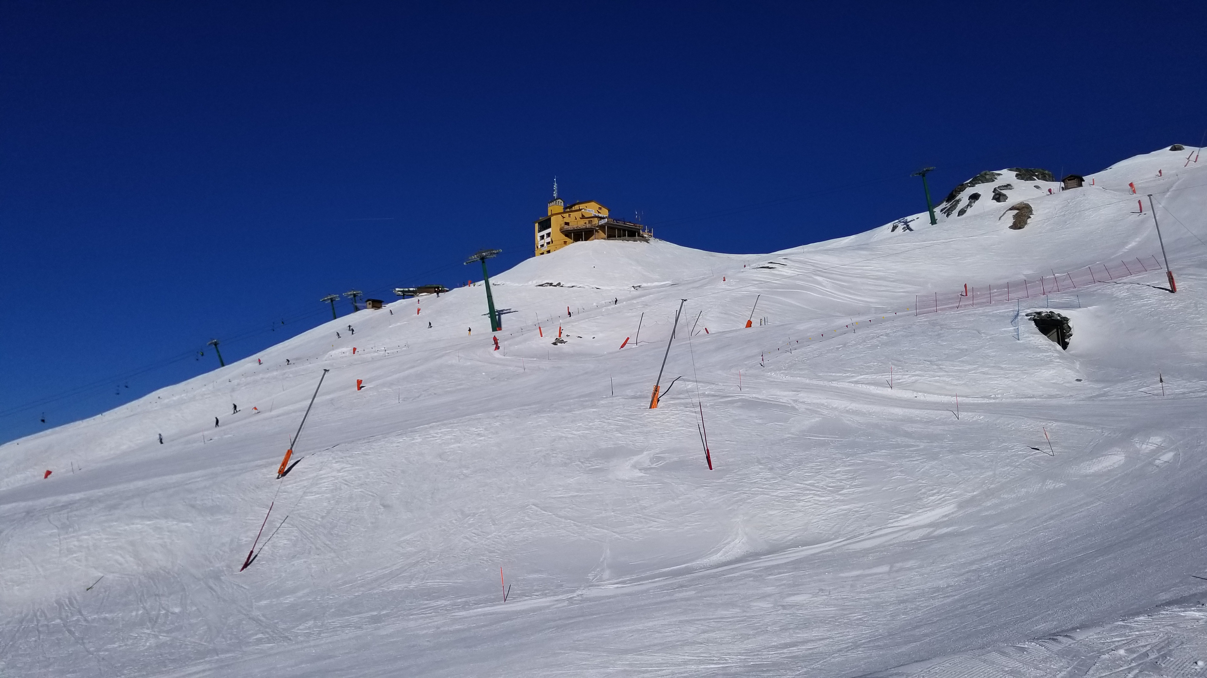 The restaurant and hotel Tana Della Volpe sits atop mount Banchetta, one of the peaks of the Sestriere ski resort within the Vialattea ski area in Italy. The hotel is accessible only by ski lift and stands at an elevation of 2555 m.